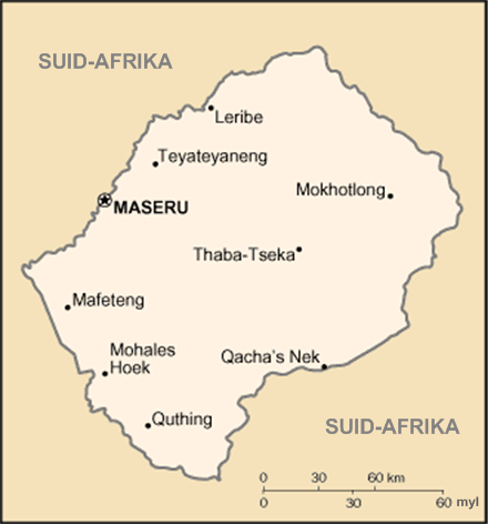 An Afrikaans map of Lesotho.